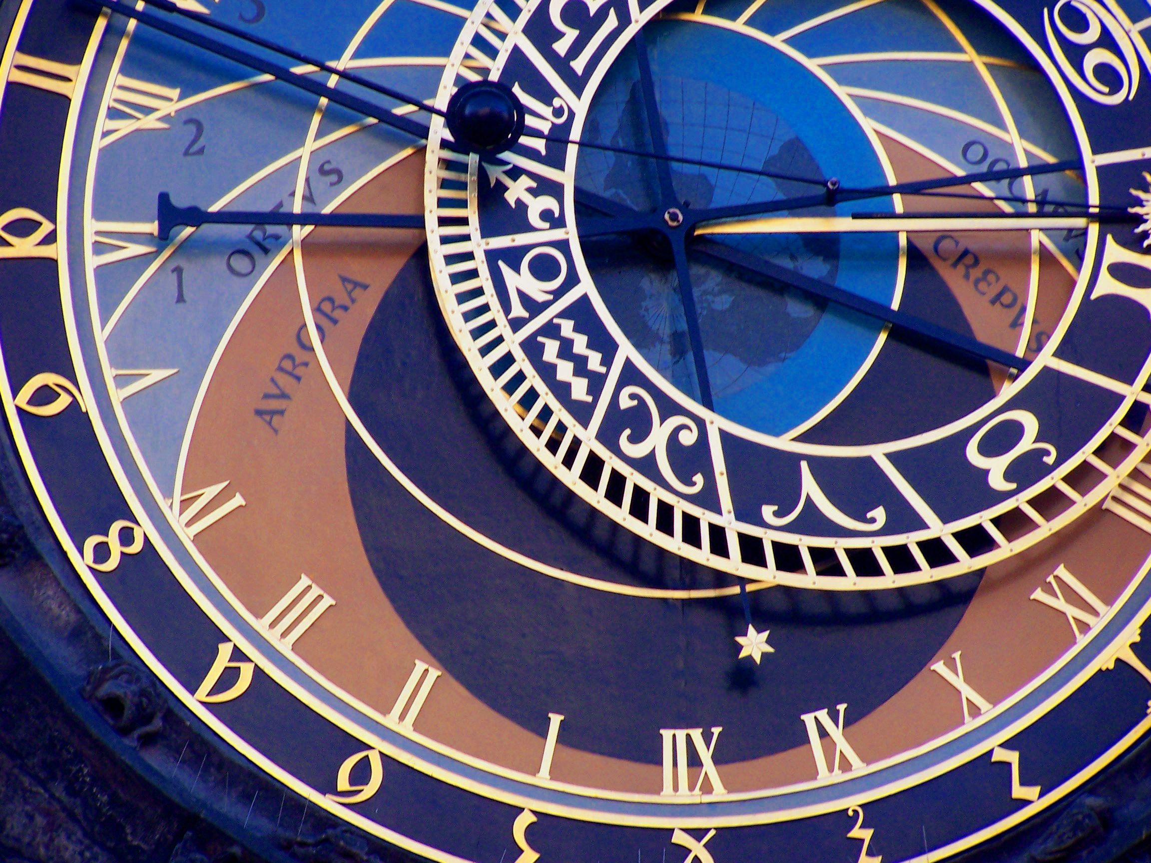 Praha - Staroměstské náměstí - Staroměstský Orloj - View NNW